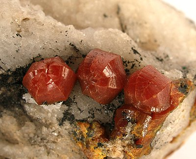 Mimetite, Pyromorphite Locality: Caldbeck Fells, North and Western Region (Cumberland), Cumbria, England, UK (Locality at ) Size: small cabinet, 7.9 x 6.8 x 3.5 cm Mimetite var. Campylite My god, the COLOR on these mimetite crystals is crazy good...just a fiery red, the best I have seen of this material for color. They are smallish at 6-7mm, but the "Three Amigos" make quite an impact visually as they sit on this contrasting matrix, Superb specimen for quality, and a neat label as well.